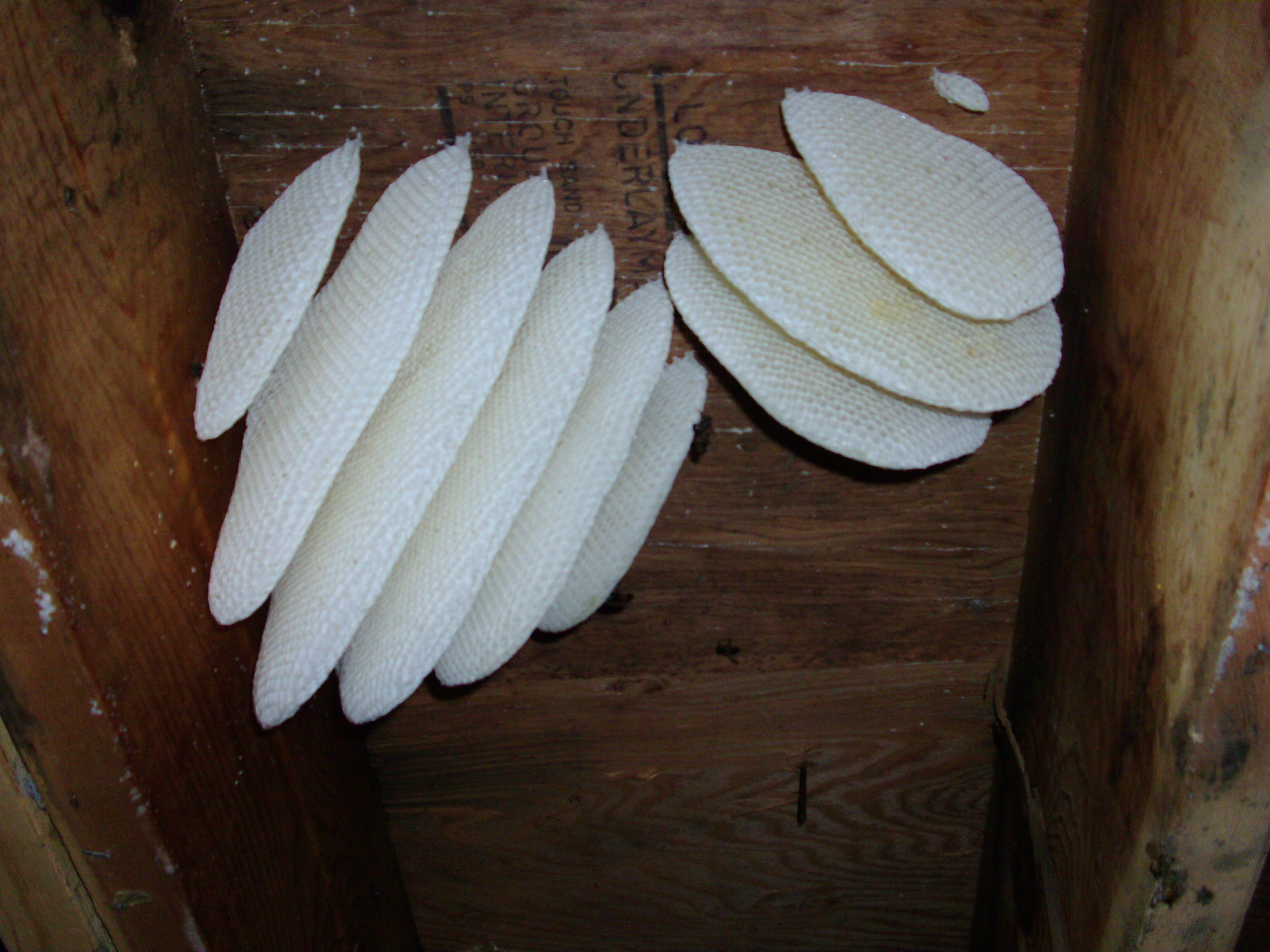 Honey Bee comb between ceiling joists in basement of house near Alpena, Michigan, USA